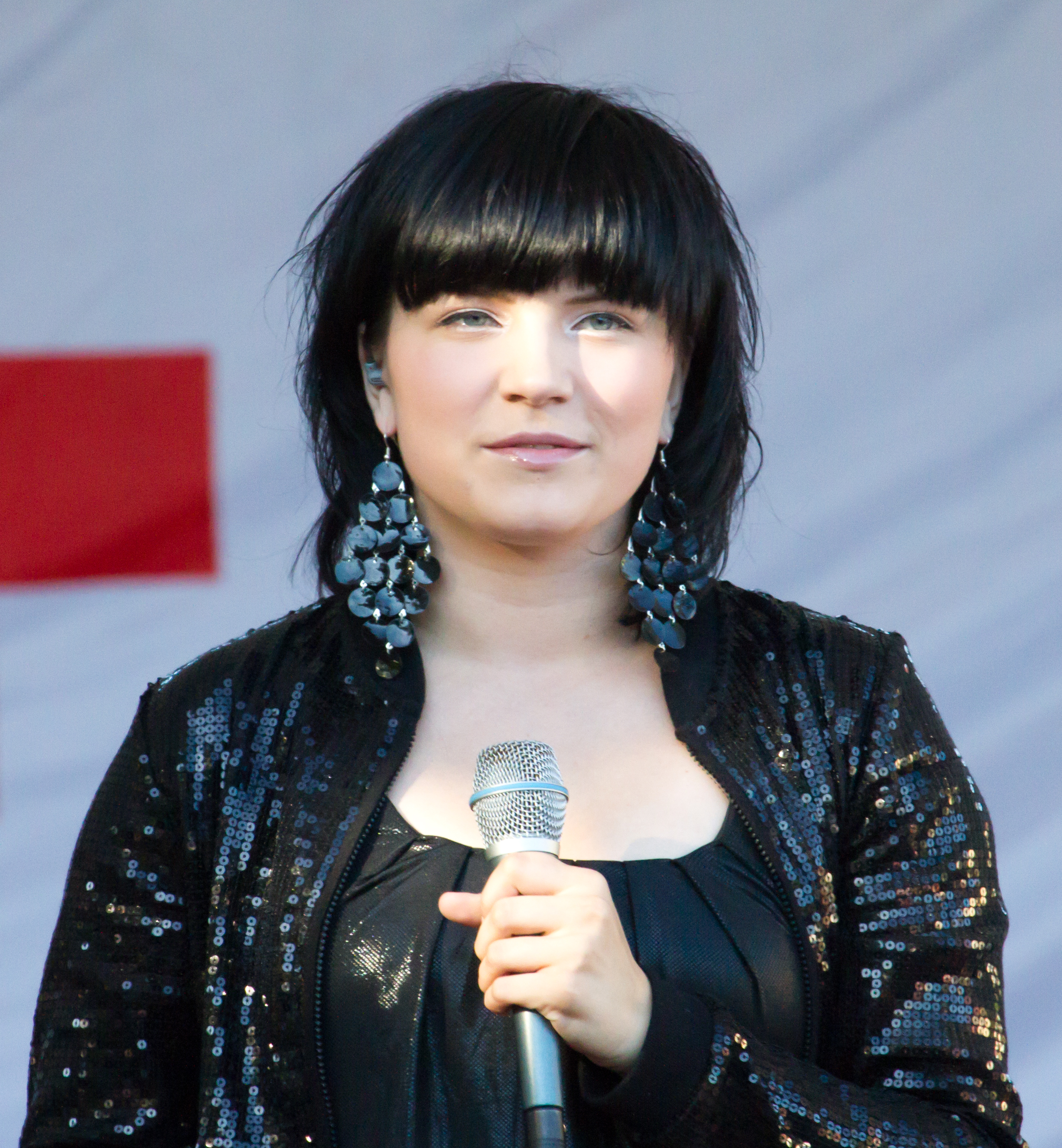 Suvi Teräsniska, a Finnish singer